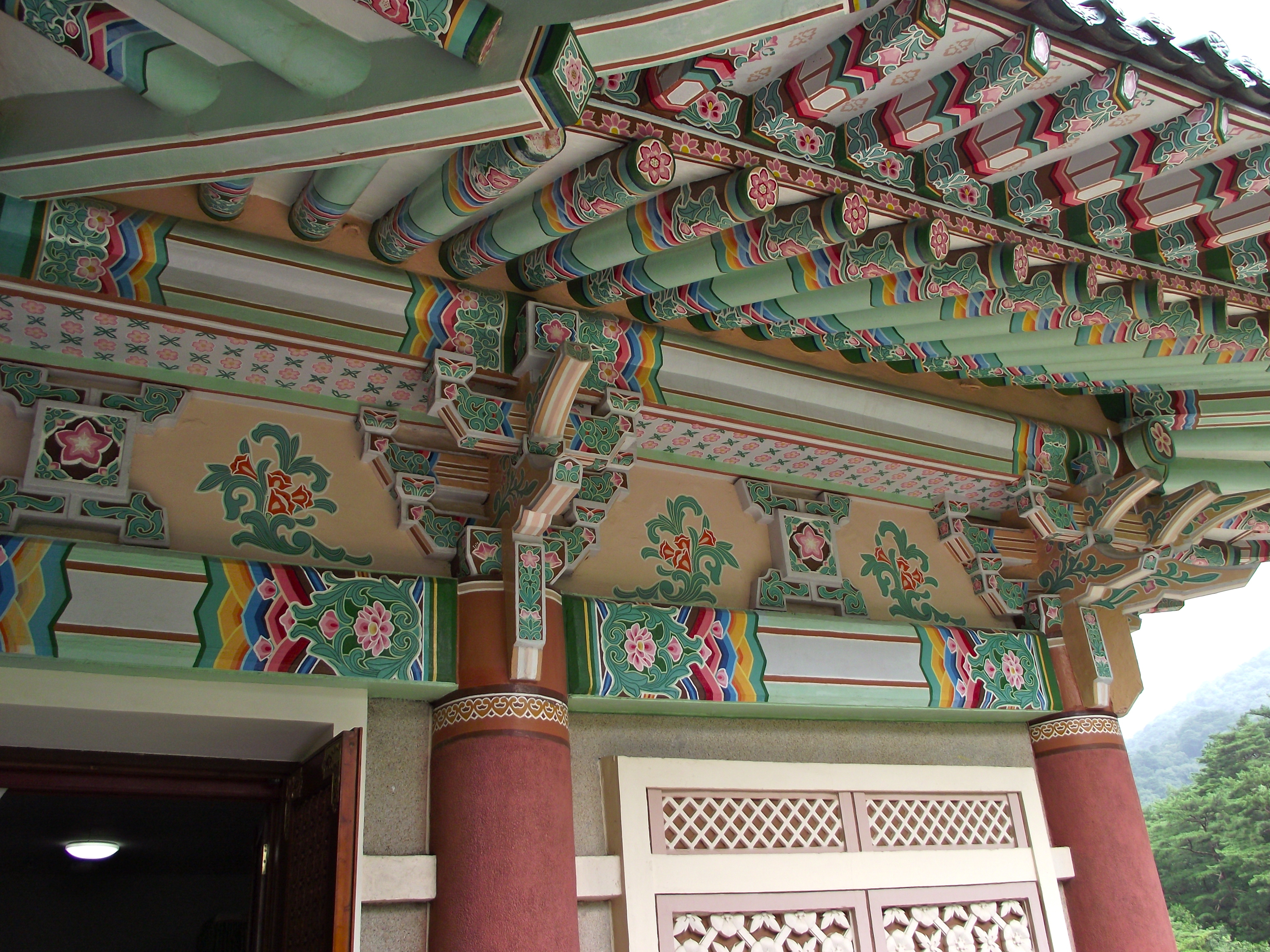 International Friendship Exhibition Hall, Mount Myohyang